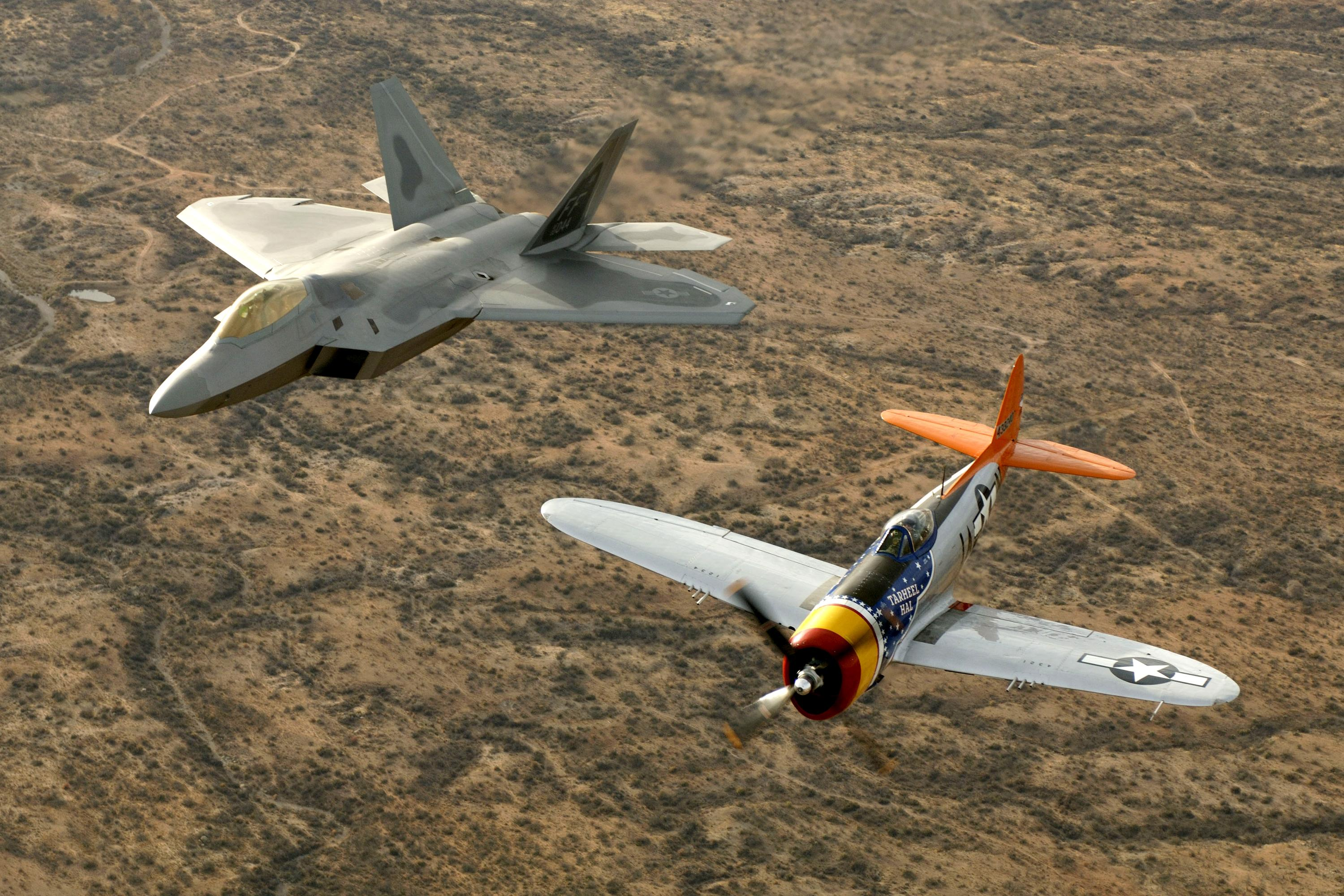 A World War II-era P-47 Thunderbolt and an F-22A Raptor from Langley Air Force Base, Va., fly in formation over Tucson, Ariz., Sunday, March 5, 2006, during the Air Combat Command Heritage Conference at Davis-Monthan Air Force Base. Tom Gregory flew the Thunderbolt and Lt. Col. Michael Shower flew the Raptor.